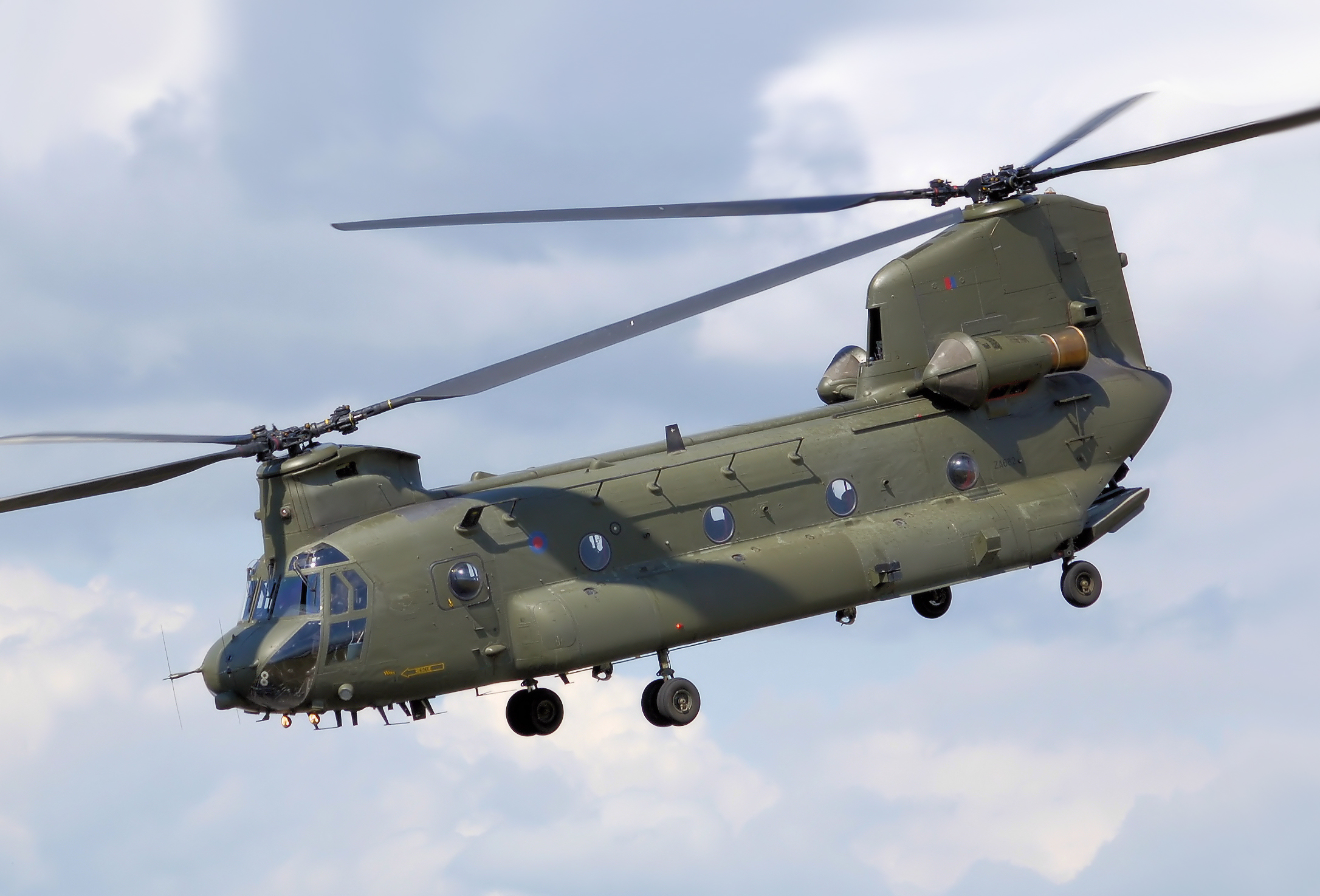 RAF Chinook HC2 (military registration ZA682) displaying at Kemble Air Day 2008, Kemble Airport, Gloucestershire, England.